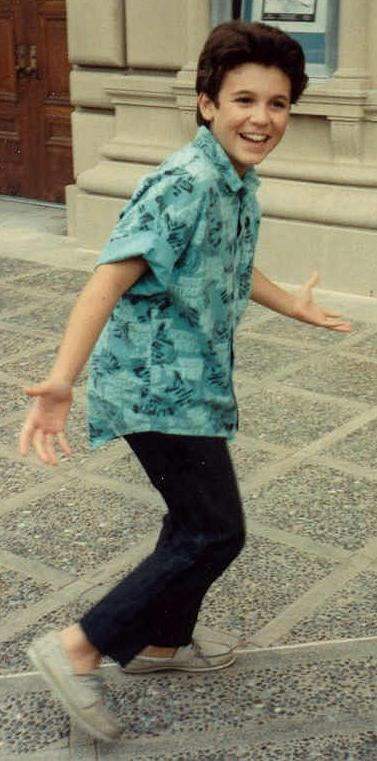 Fred Savage at a rehearsal for the Emmy Awards